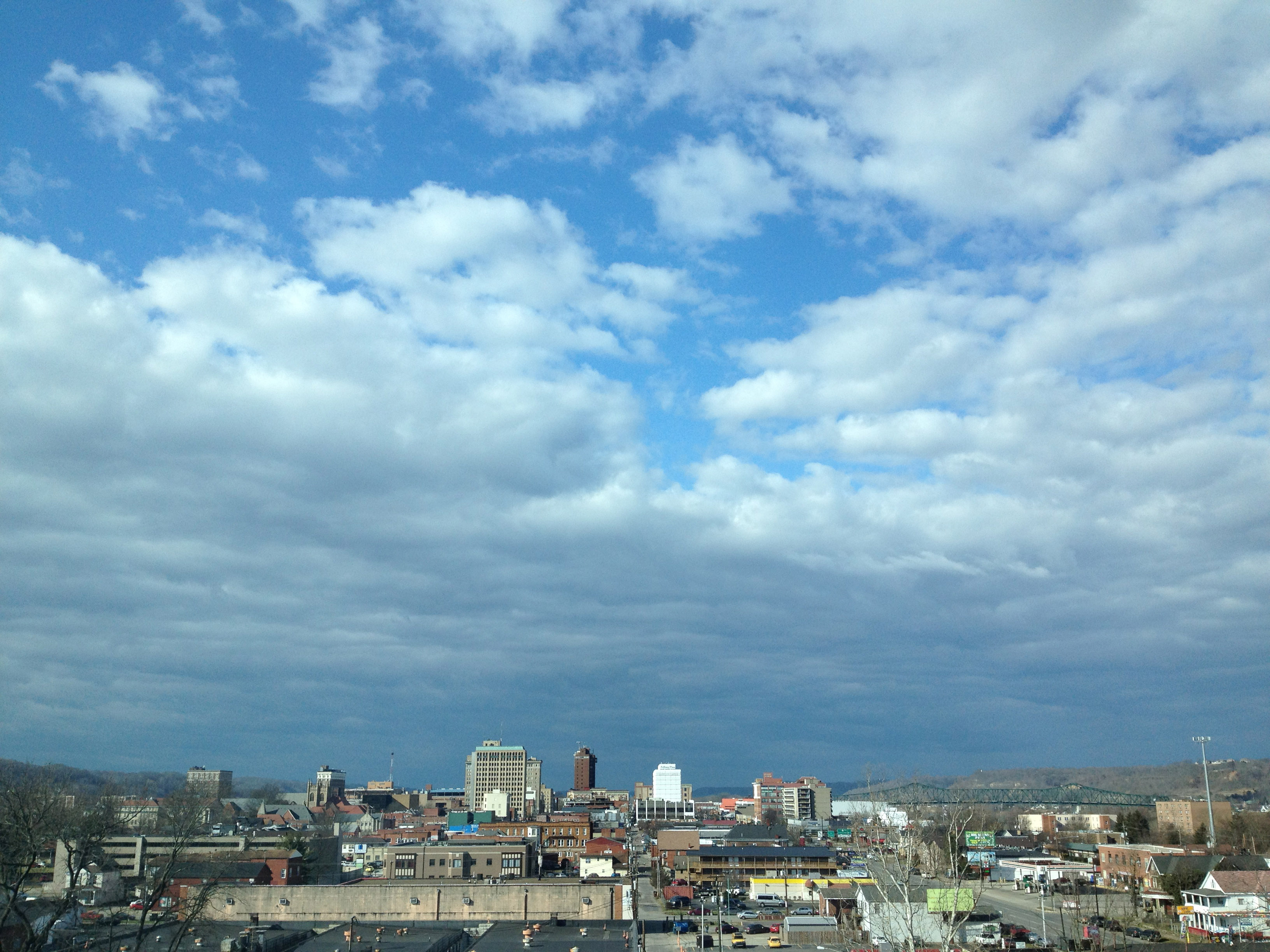 Huntington, WV as seen from Smith Hall at Marshall University.